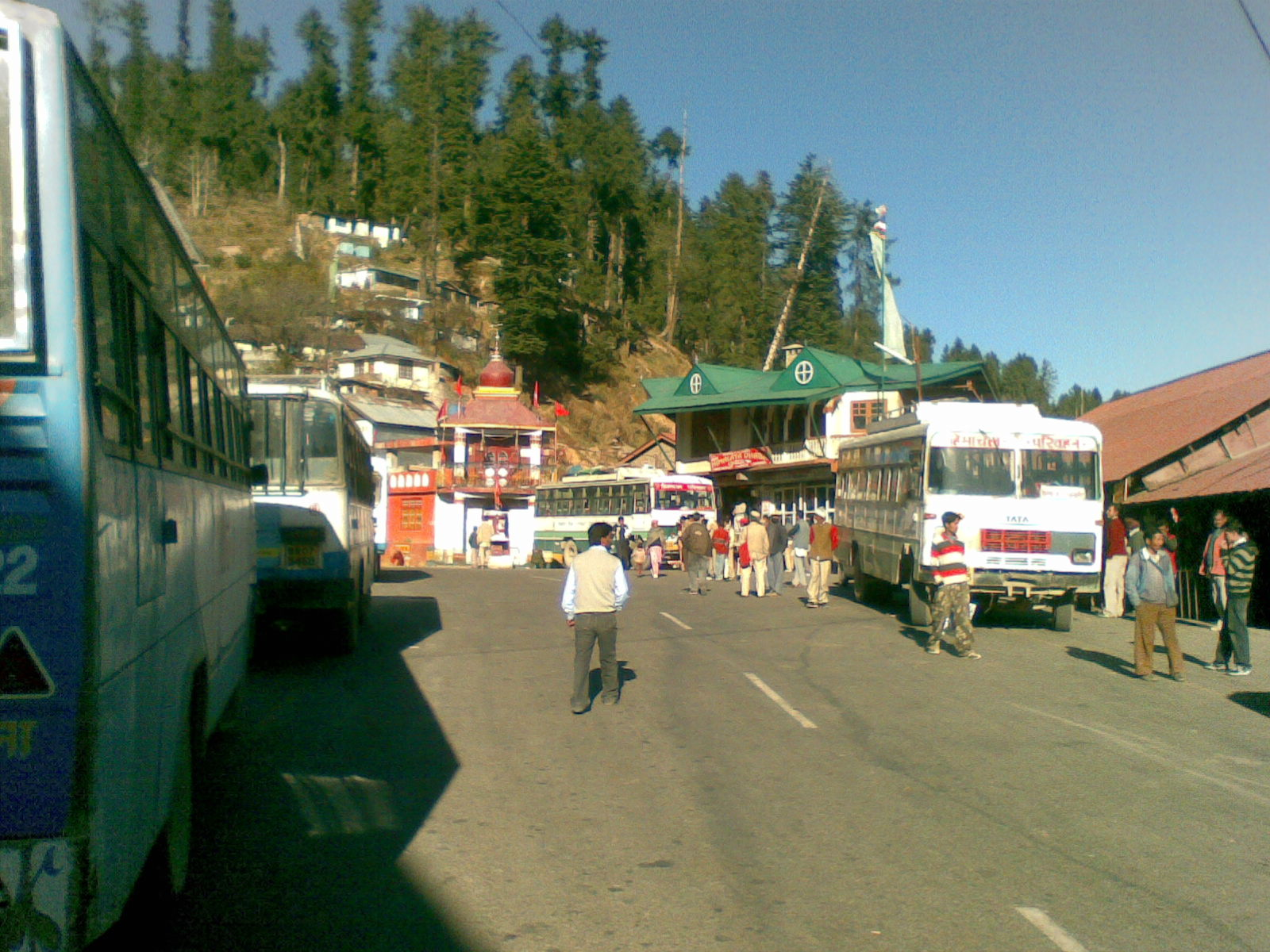 Picture of Narkanda Bus stand and market. Narkanda is a town in the Shimla district of Himachal Pradesh, India.